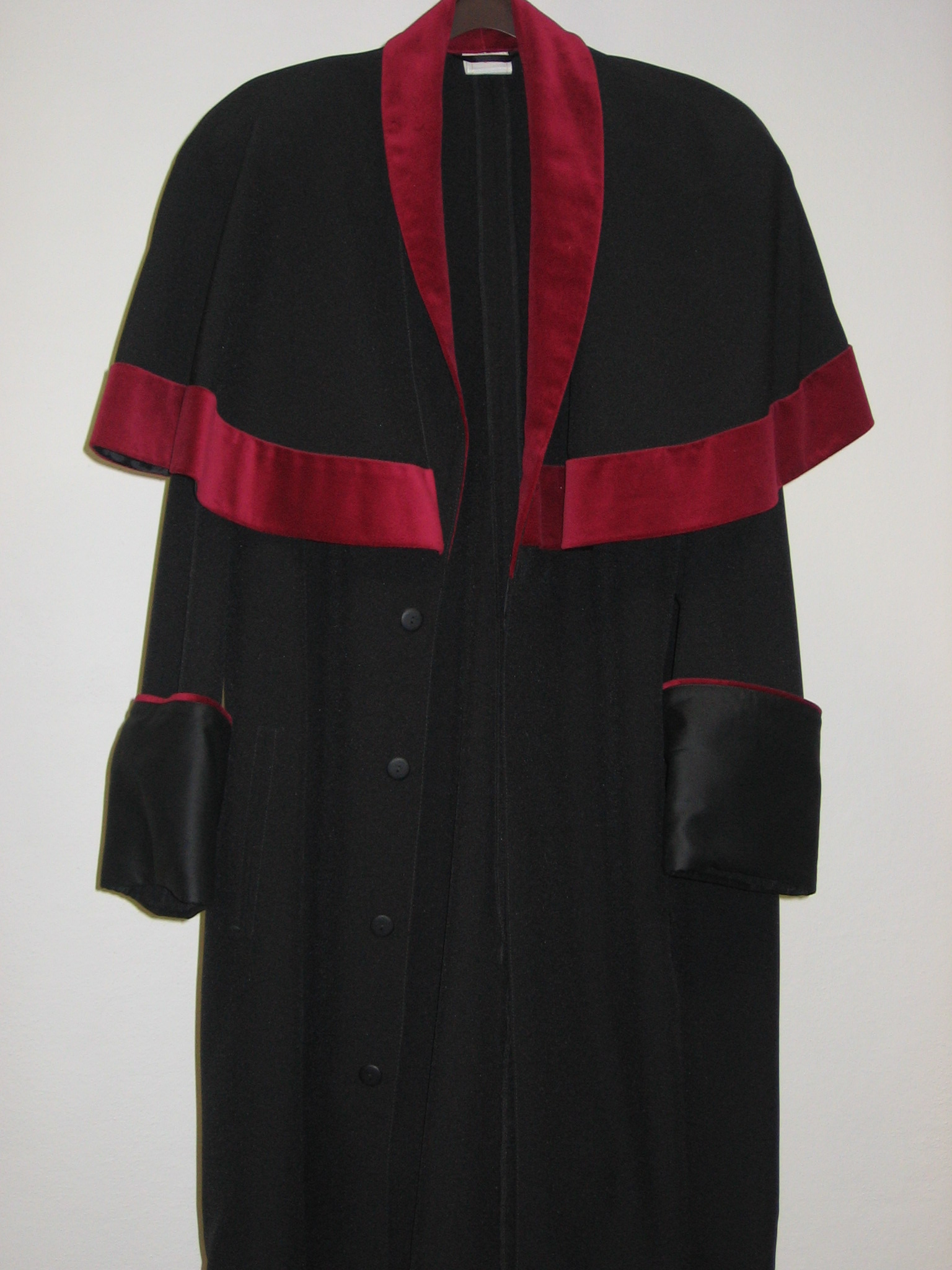 Official clothing of the Czech state attorney used during criminal trial (in Czech so called „talár“)